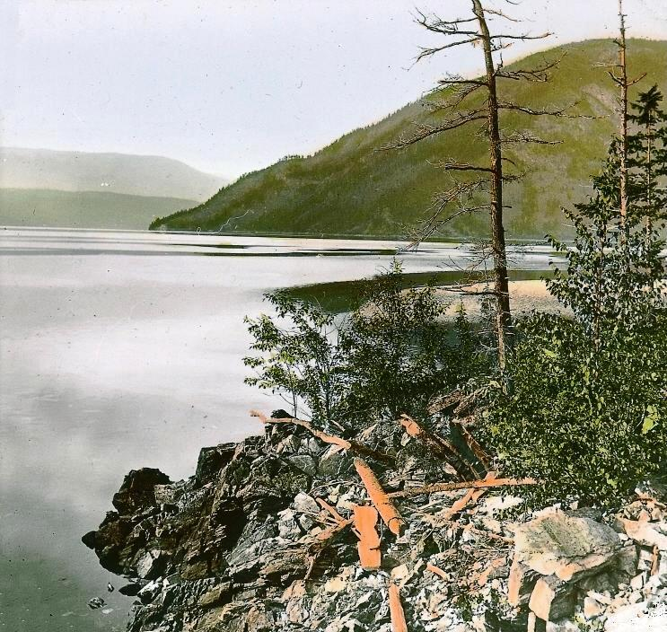 Photograph, glass lantern slide, Shuswap Lake on the C.P.R., near Sicamous, BC, 1889, copied ca.1902, William McFarlane Notman, Silver salts and transparent ink on glass - Gelatin dry plate process - 8 x 10 cm